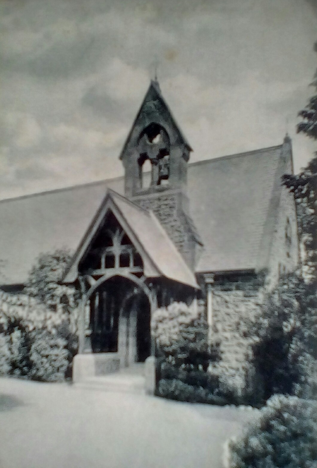 Built in 1875-6 by architects Goldie & Child of London.